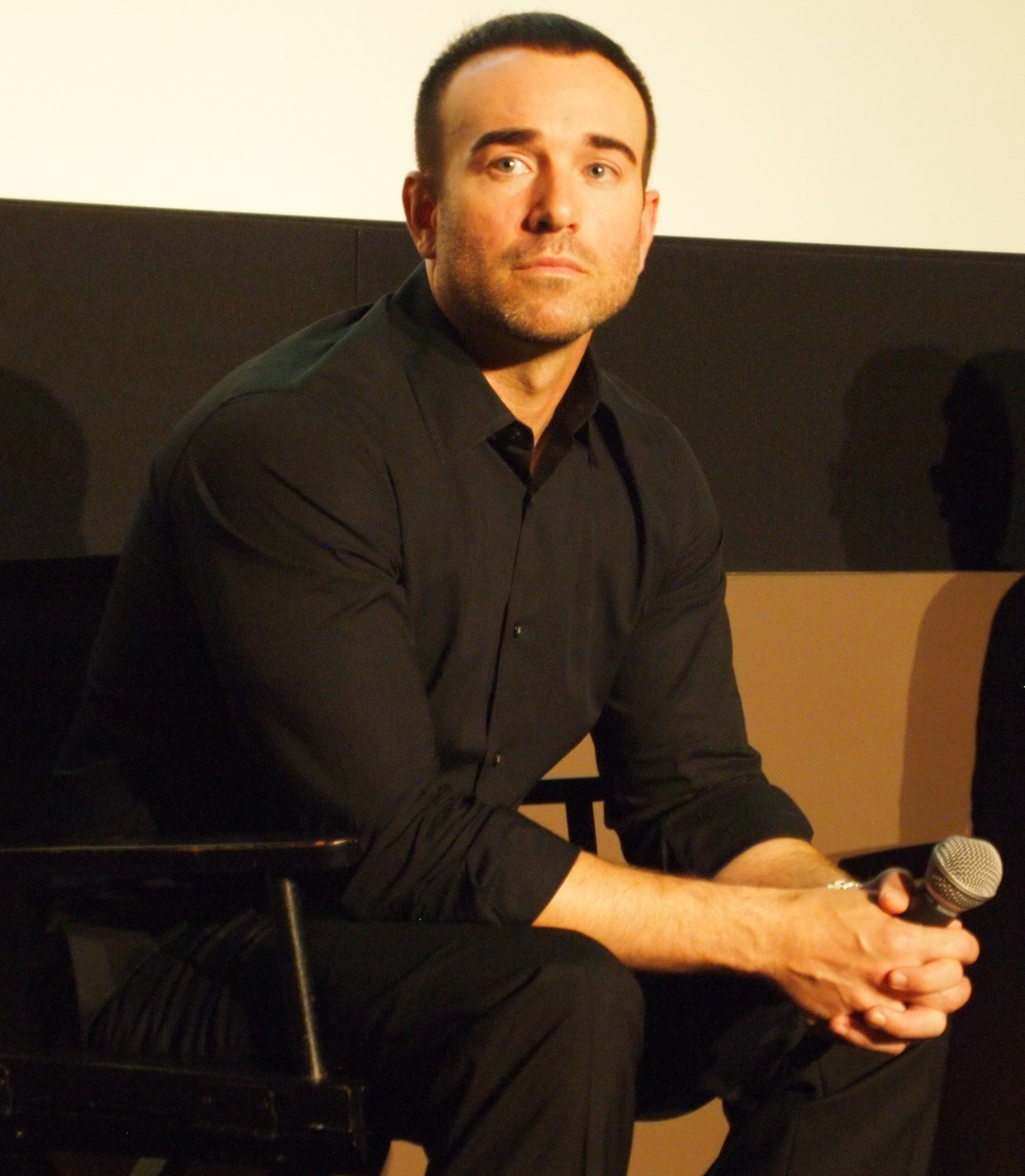 John Hargrove at a public speaking event in 2013.